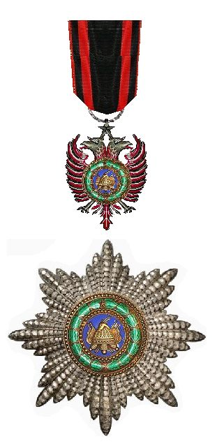 Star and cross of the Order of Skanderbeg Albania 1925 - 1945